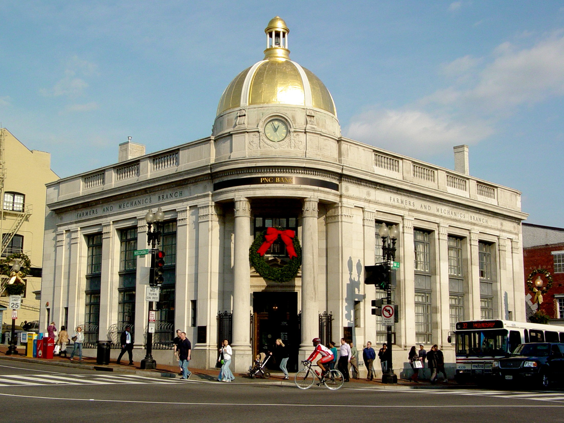 Former Riggs Bank building, now PNC Bank, at the corner of M Street and Wisconsin Avenue NW in Washington DC